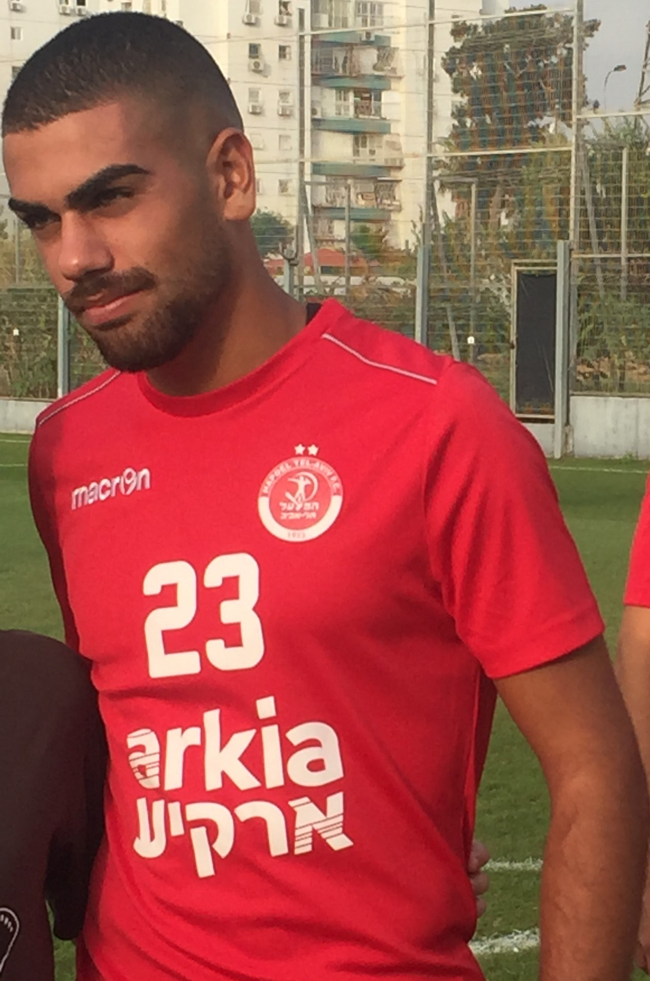 Hapoel Tel Aviv FC Player Raz Shlomo, October 2018